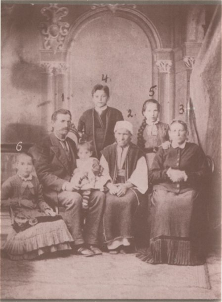 Kraychovs Family circa 1880